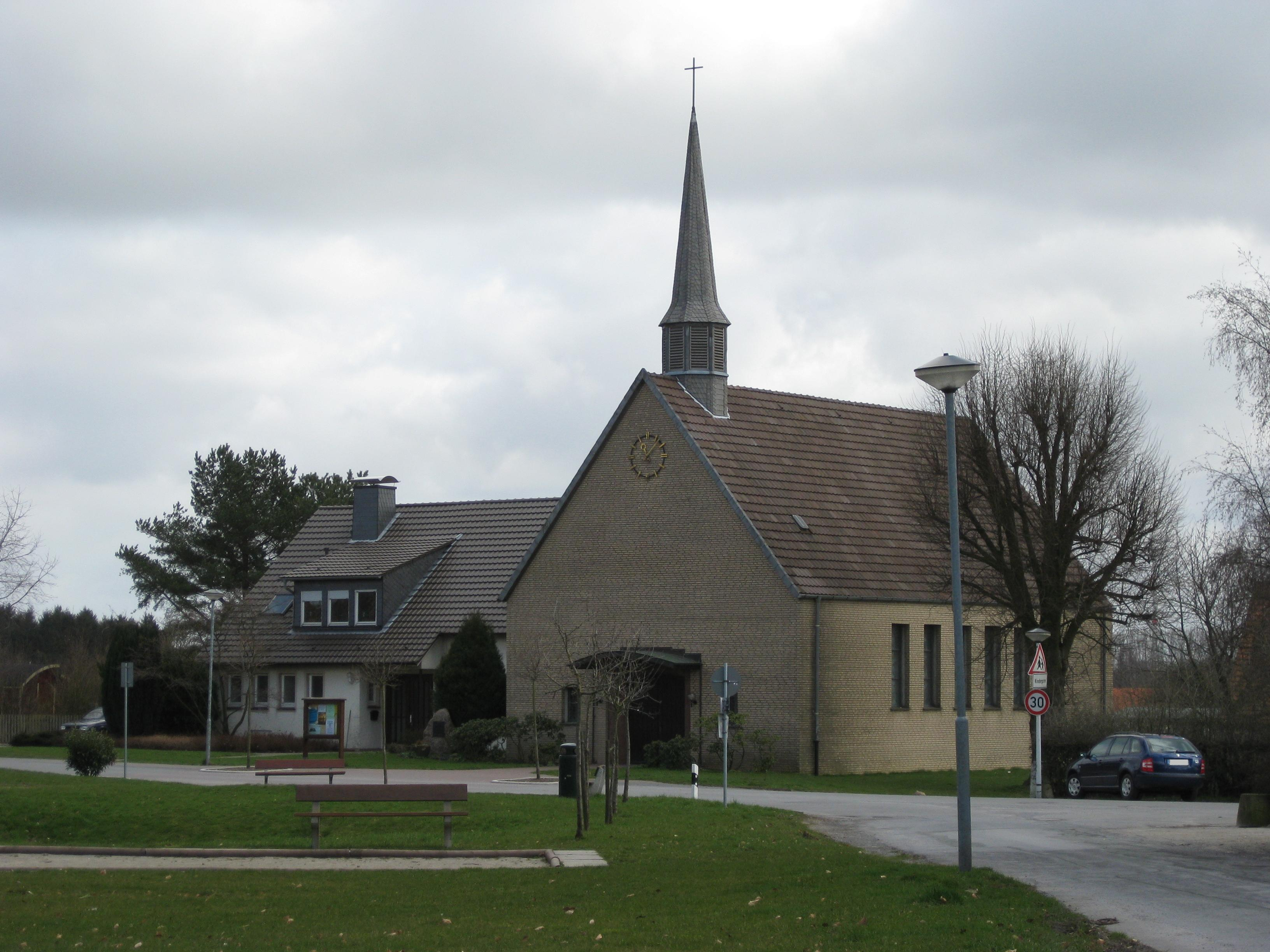 Lutheran Church in Werther-Häger